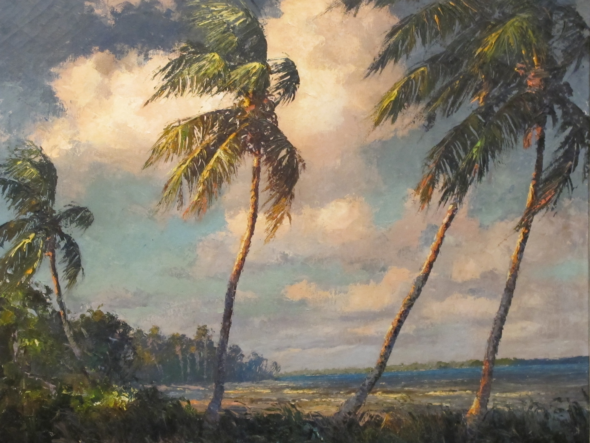 A picture of a painting that I own by A. E. Backus